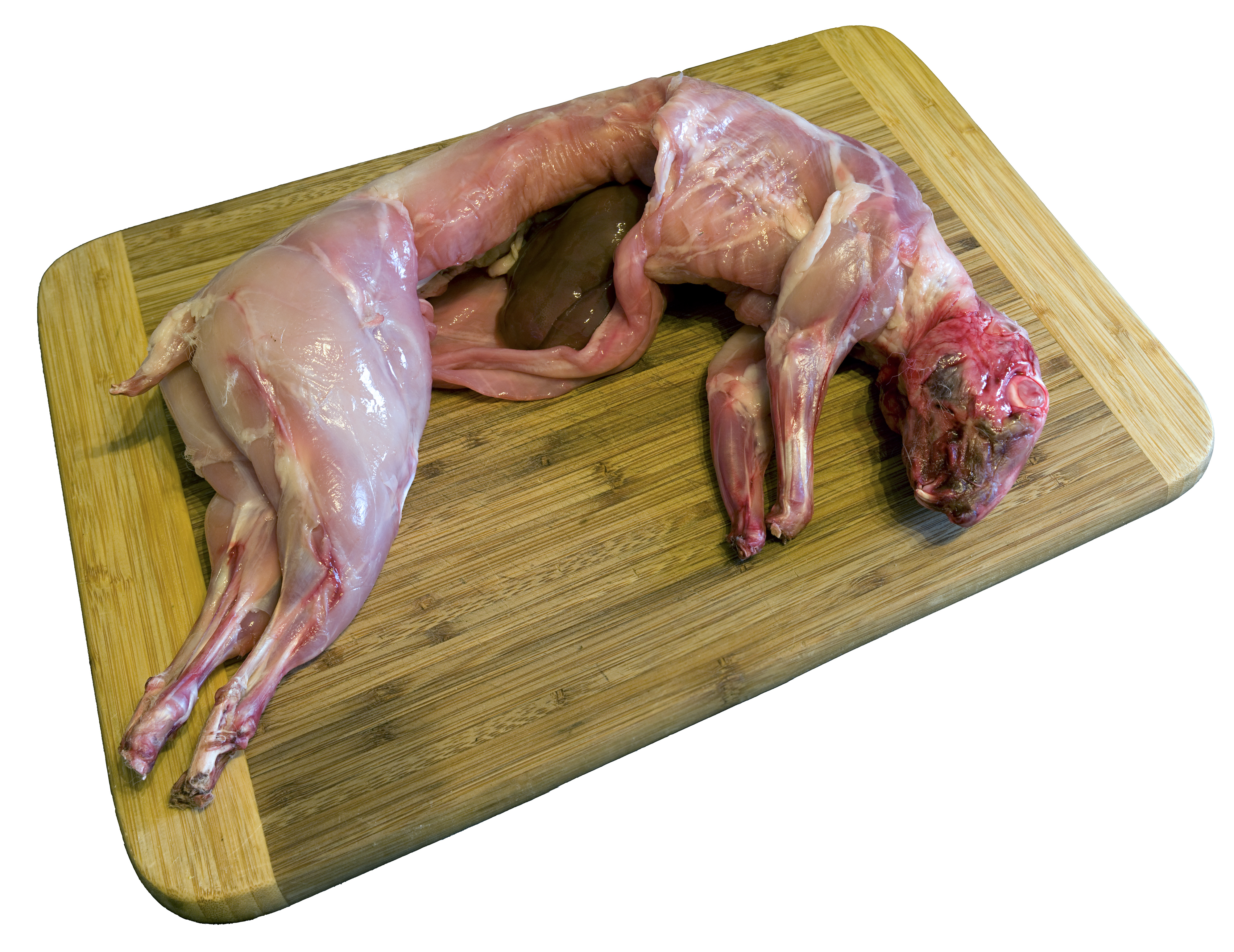 Slaughtered rabbit is uncooked